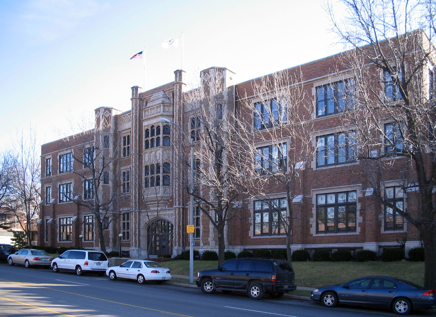 Photo of SLUH taken by TMS63112 January 29, 2006